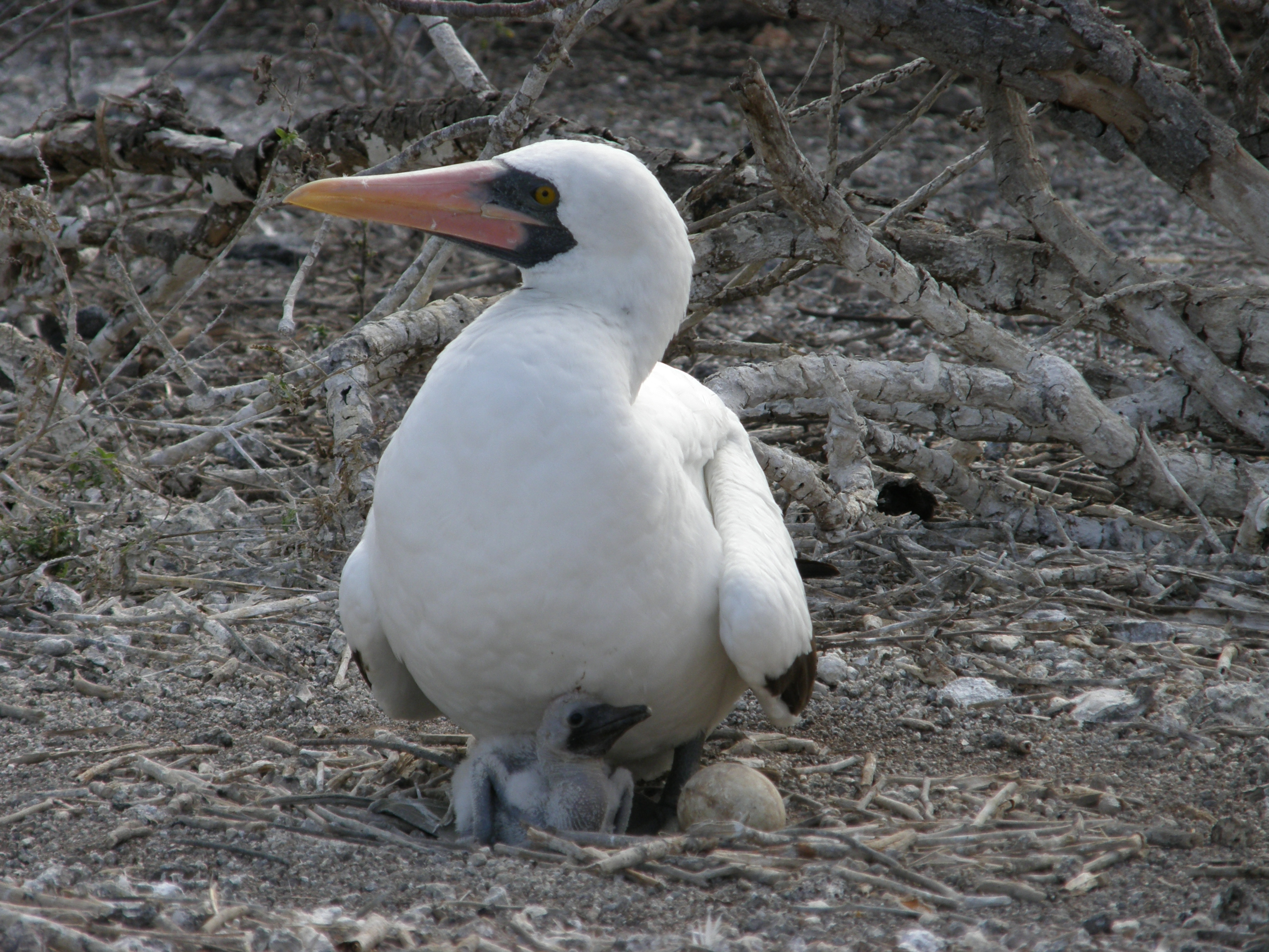 Nazca booby (Sula granti) with its chick and egg. Photographed by Ernie Lo in the Galapagos Islands, Ecuador, 2007.